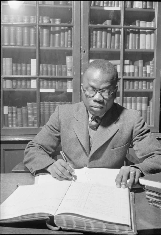 Colonial Students in Great Britain- Students at the City of London College, London, England, UK, 1946 Mr Isaac Ennin of Western Province, Gold Coast, studies accountancy at City of London College. According to the original caption, Mr Ennin was educated at an Elementary Missionary School and went to work for the Gold Coast Government Railway, continuing his education via correspondence courses. He has been sent to Britain for a three year course by the Gold Coast Railway, and will have some practical experience with the LNER before returning to the Gold Coast Railway as a Government Accountant.